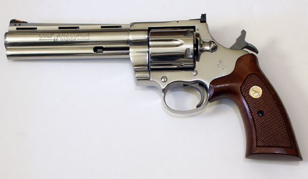 Colt Anaconda .44 Magnum 6 inch Barrel